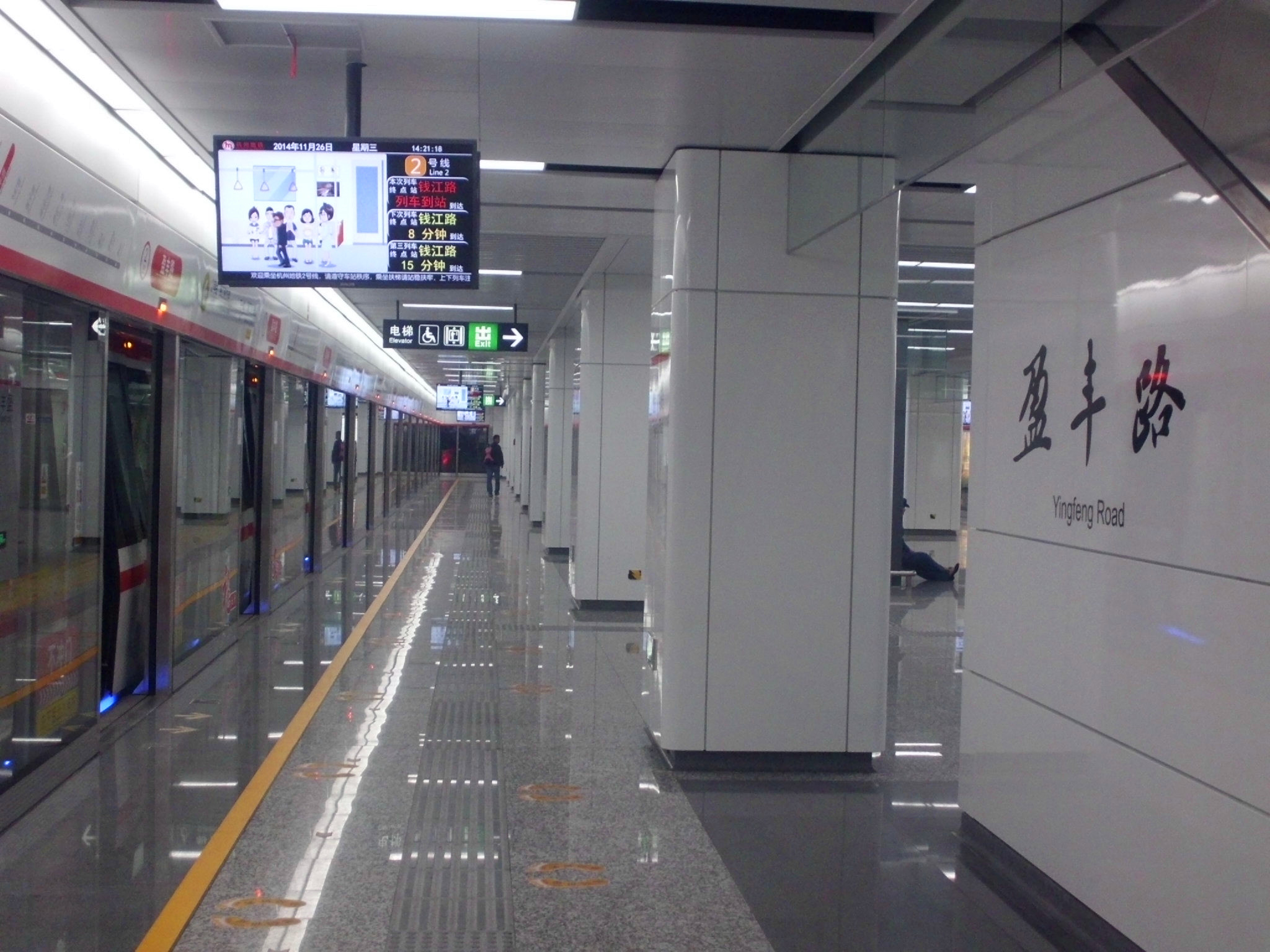 Yingfeng Road Station